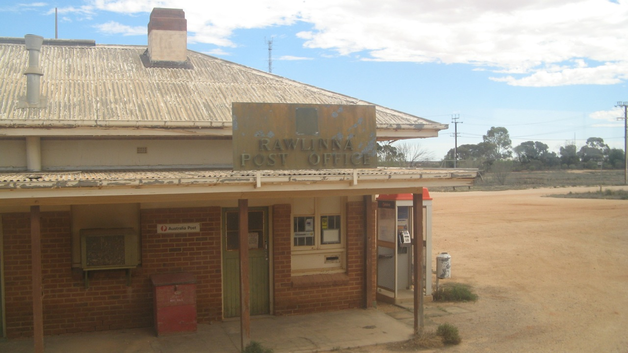 A picture of the Australia Post Office in Rawlinna, Western Australia